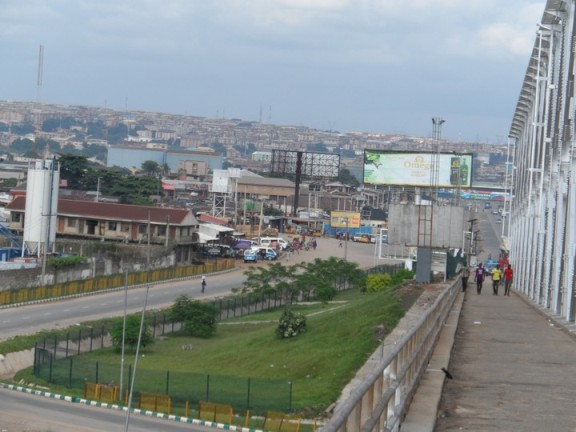 A city of ten thousand 6 story buildings defines Onitsha as a clustered urban settlement in Nigeria